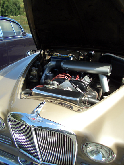 Engine bay of 1968 Jaguar 420